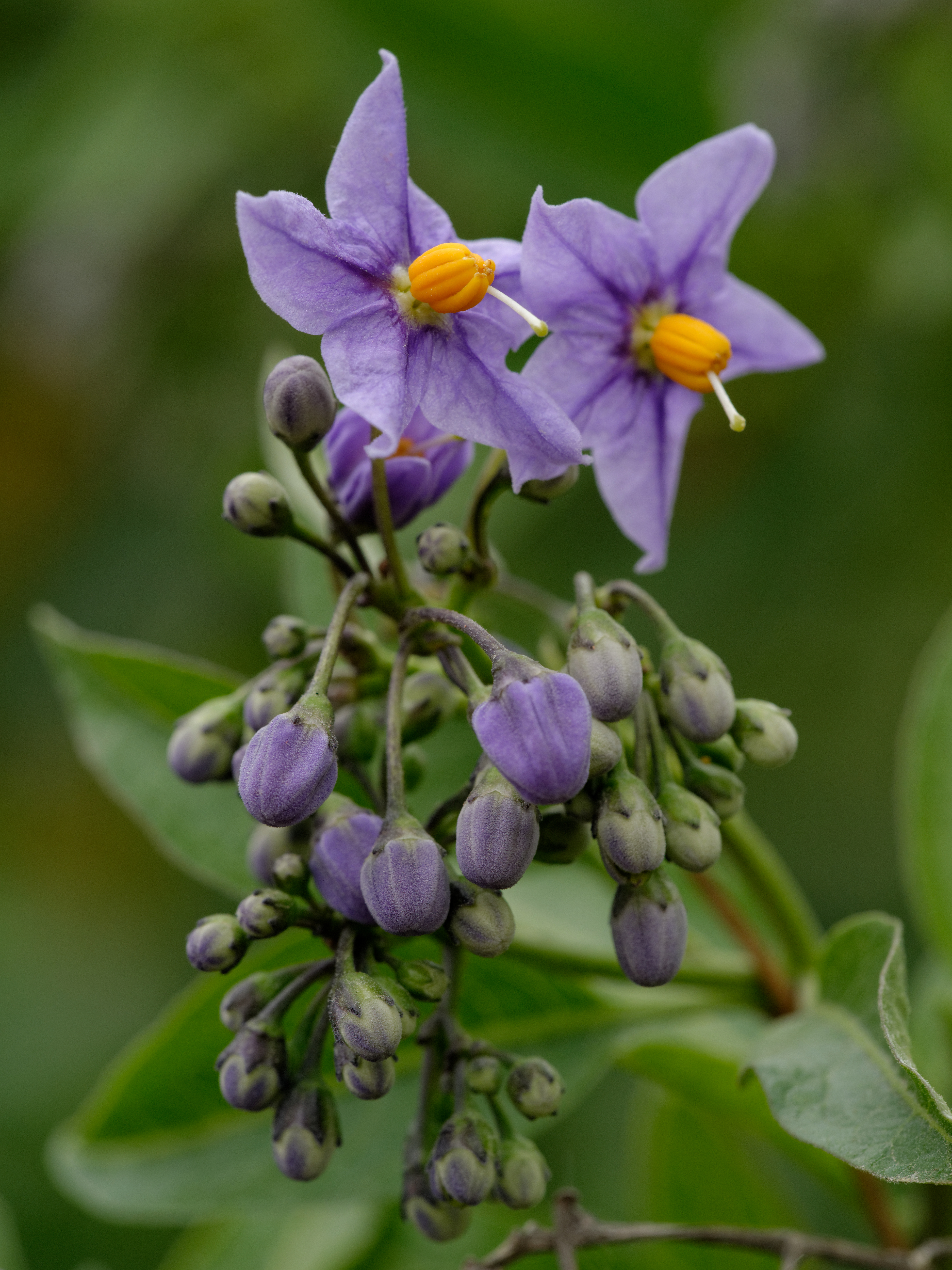 Chilean potato vine (Solanum crispum). Botanic school, Jardin des Plantes, Paris, France.